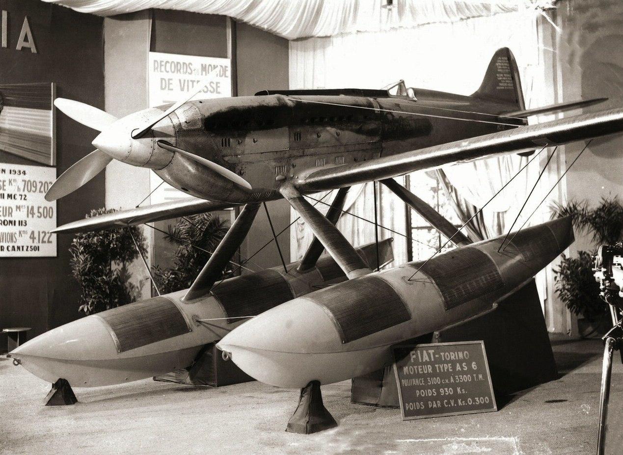 The Macchi C.72 exhibited at the Paris Air Show of 1934